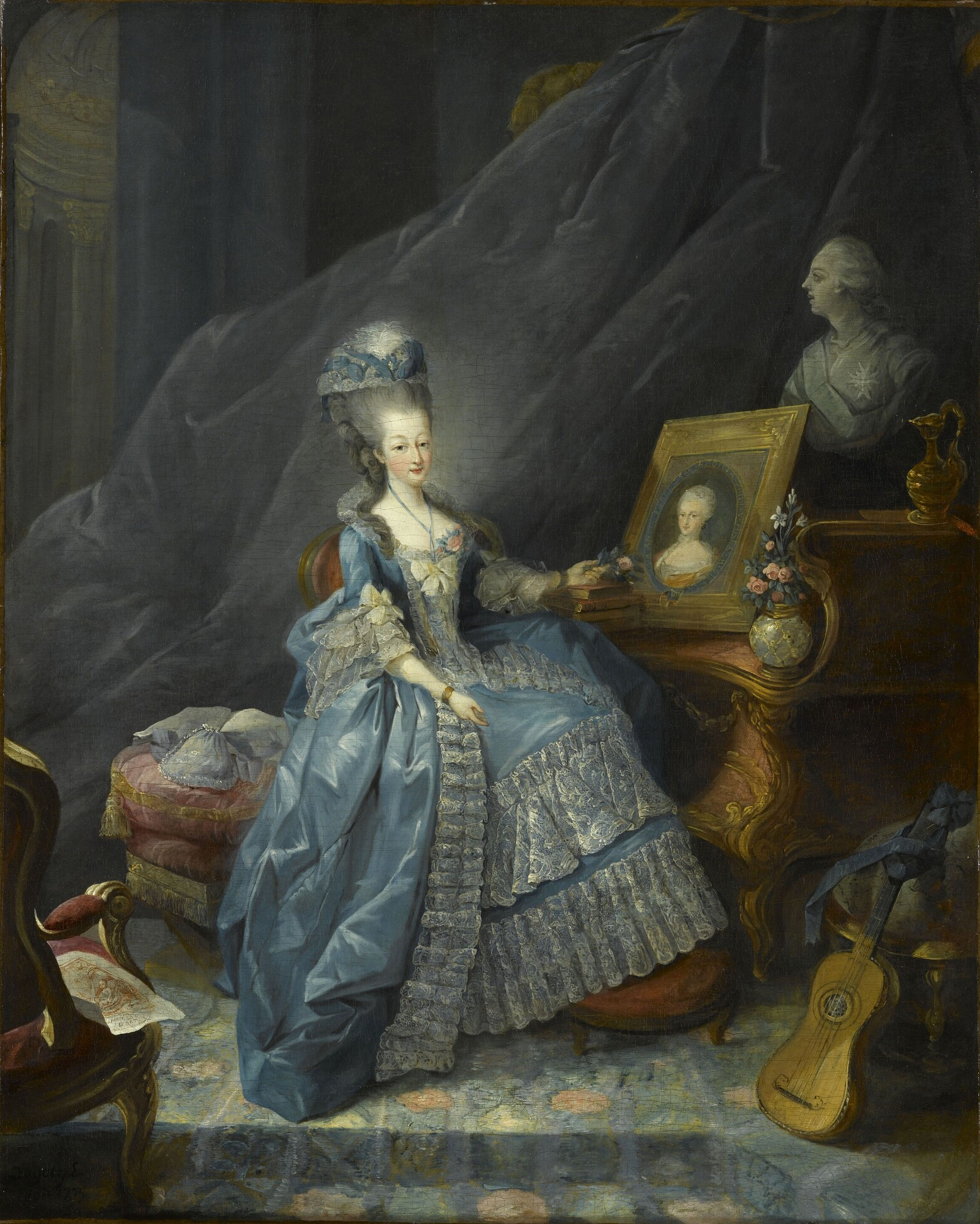 Marie Thérèse of Savoy, Countess of Artois pointing to a portrait of her mother and overlooked by abust of her husband